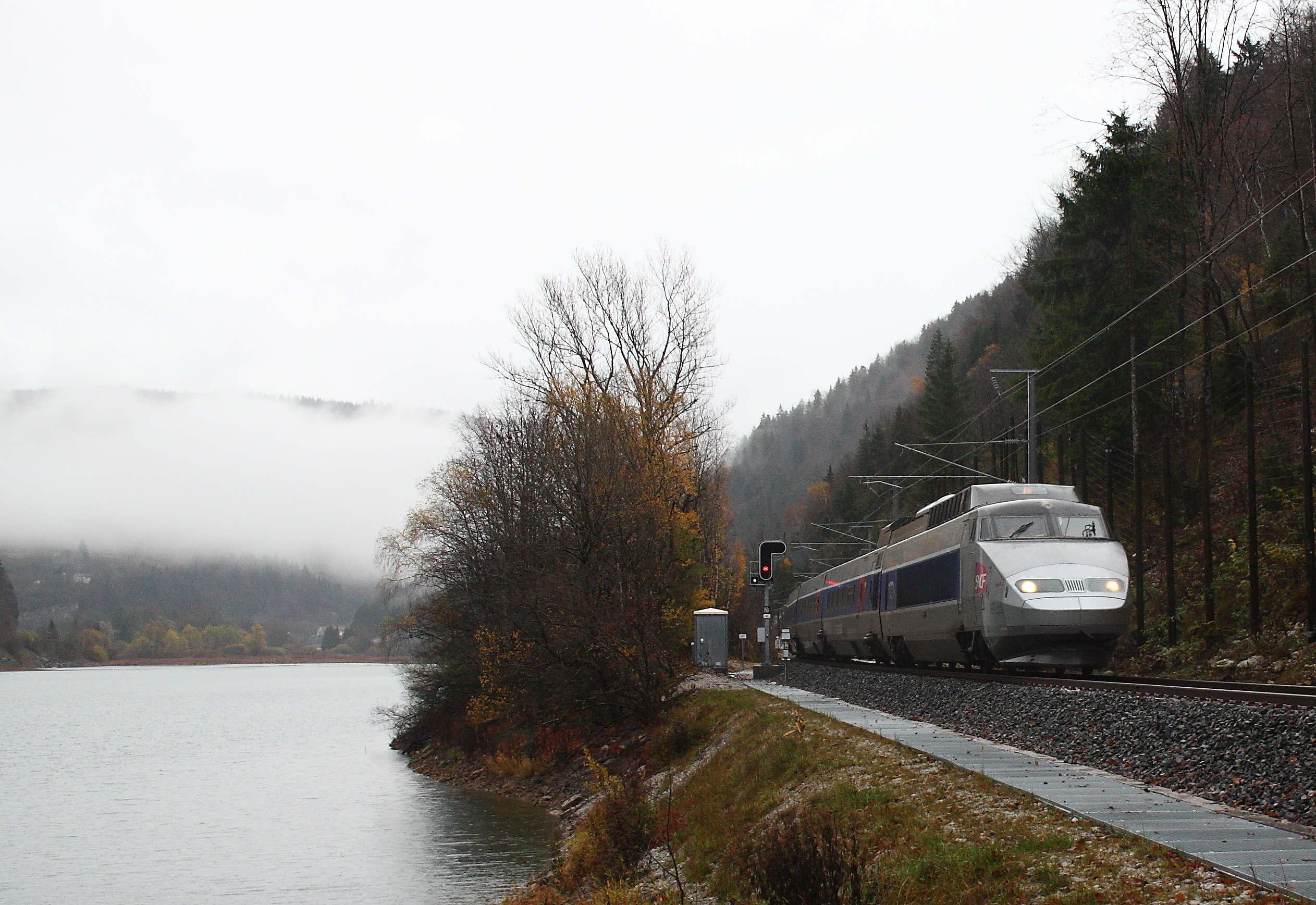 TGV near Sylans lake